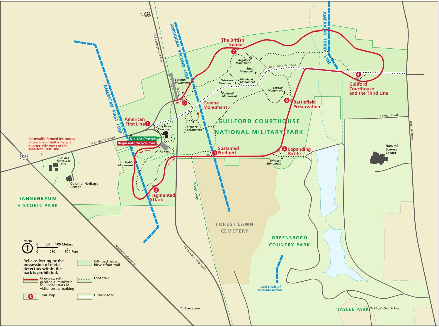 This is a current map of the Guilford Courthouse National Military Park. Also, in conjunction with an older map, it can illustrate how historiographical interpretations of the battlefield have changed. This JPEG was derived from a PDF file.